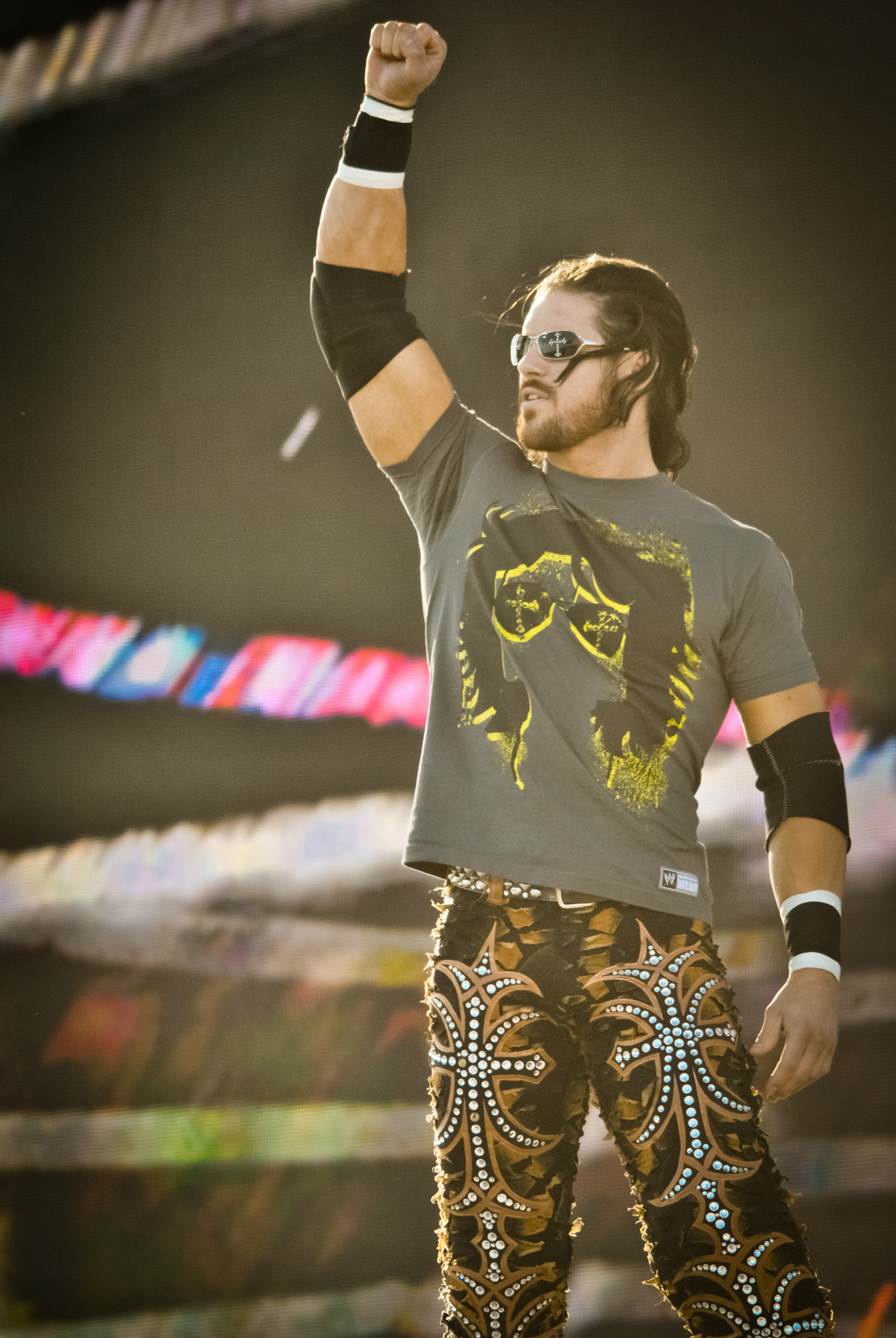 John Morrison at WWE's Tribute to the Troops on December 11, 2010 in Fort Hood, Texas.